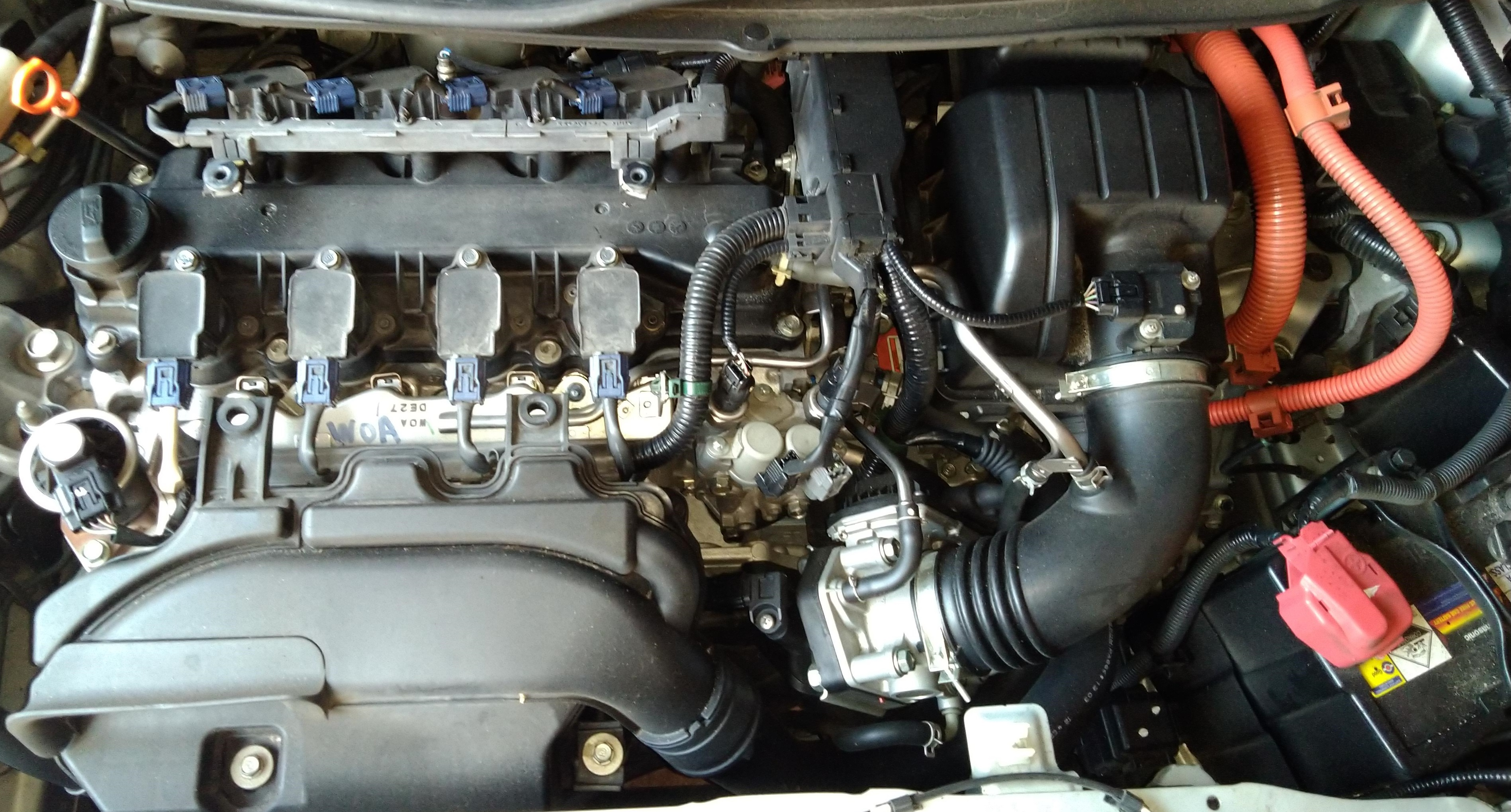 LEA-MF6 1.5l engine on a Honda Civic Hybrid